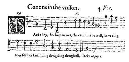 Page from Thomas Ravenscroft's (c. 1582 – 1635) "Pammelia, Musicks Miscellanie" (1609)